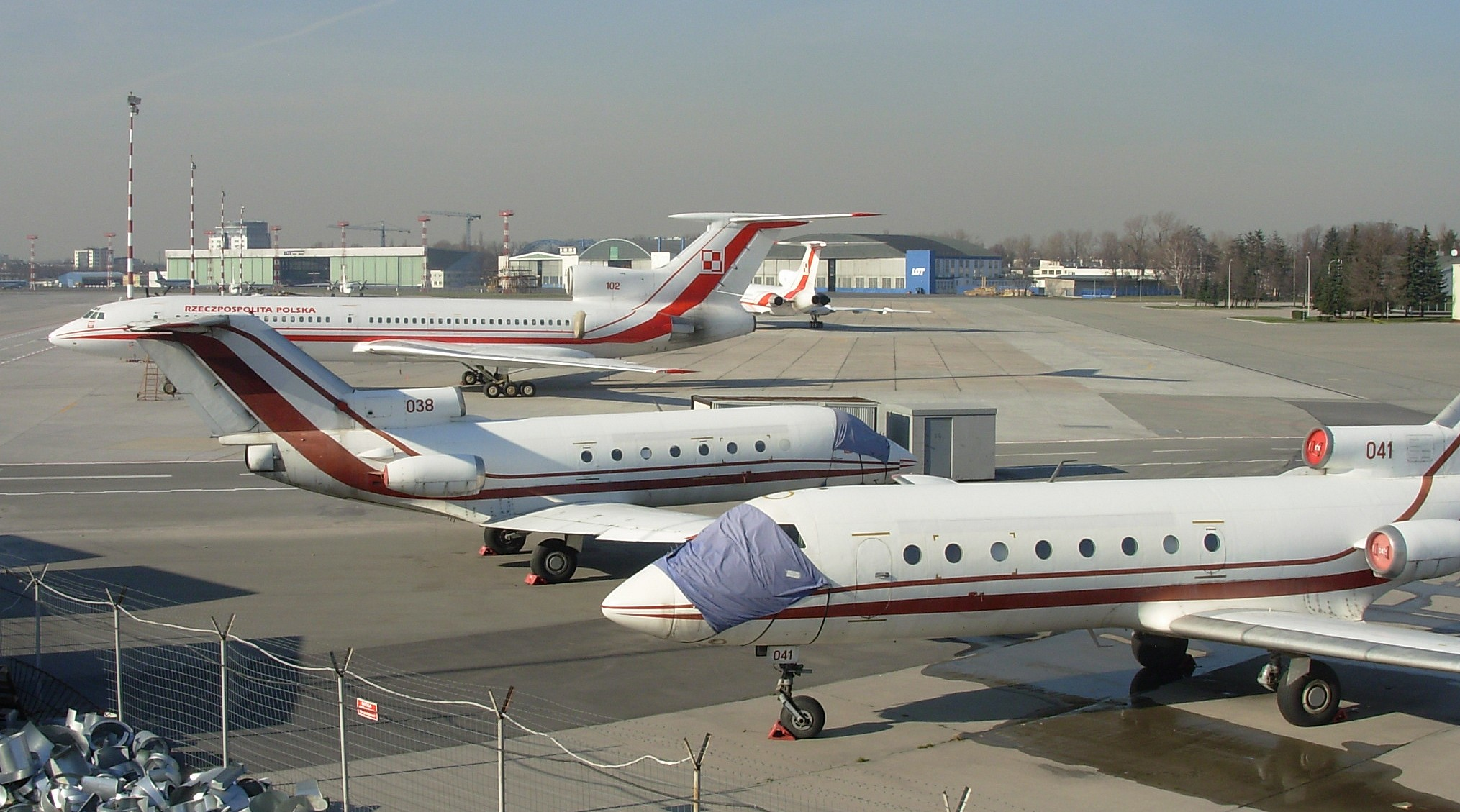 Polish Goverment Yak-40s and Tu-154 at Warsaw Airport